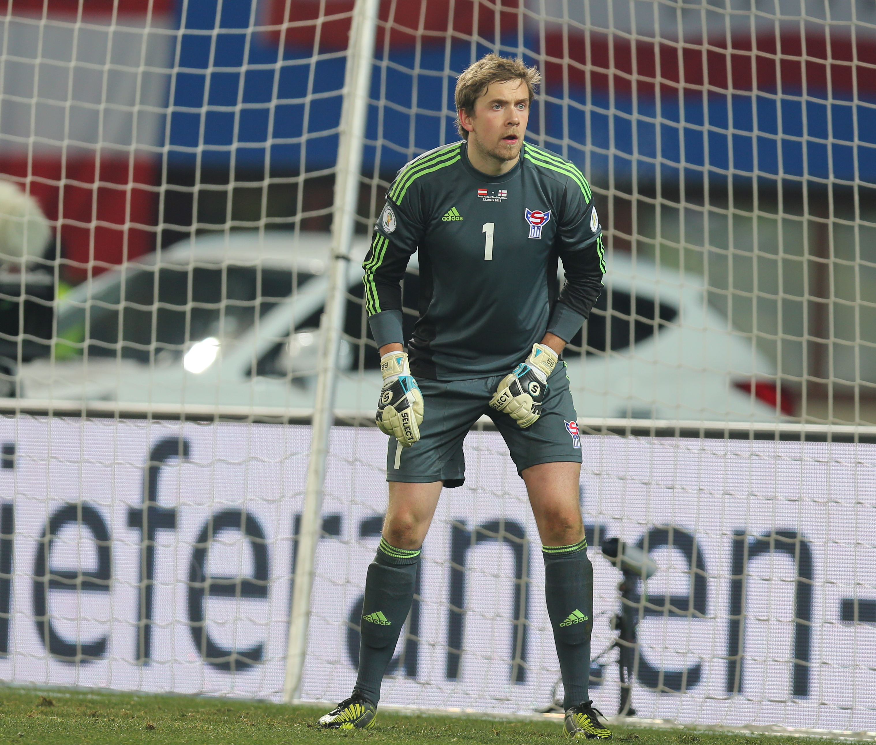 2014 FIFA World Cup qualification (UEFA), Group C: Faroer Islands national football team at 22. March 2013 before the match against the Austria national football team (0:6) in the Ernst-Happel-Stadion in Vienna. Gunnar Nielsen, goalkeeper of Faroe Islands. The making of this work was supported by Wikimedia Austria. For other files made with the support of Wikimedia Austria, please see the category Supported by Wikimedia Österreich.